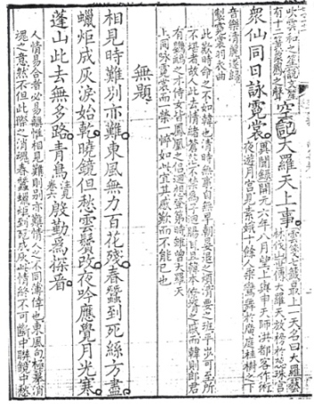 the scan image of a book of Li Shangyin